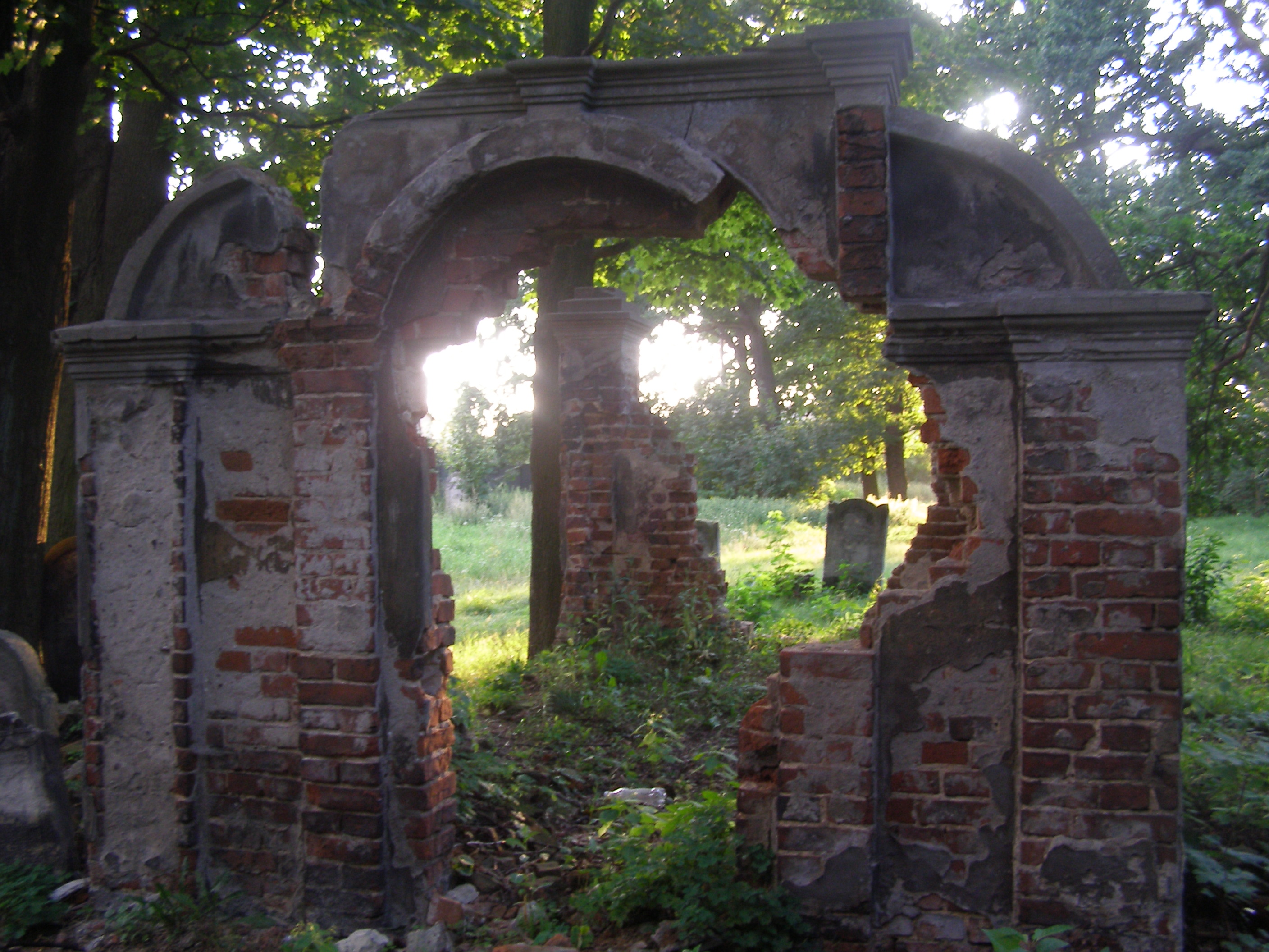 Ruins of Elias Jacob Wieliczker's ohel in the Jewish Cemetery in Tomaszow Mazowiecki